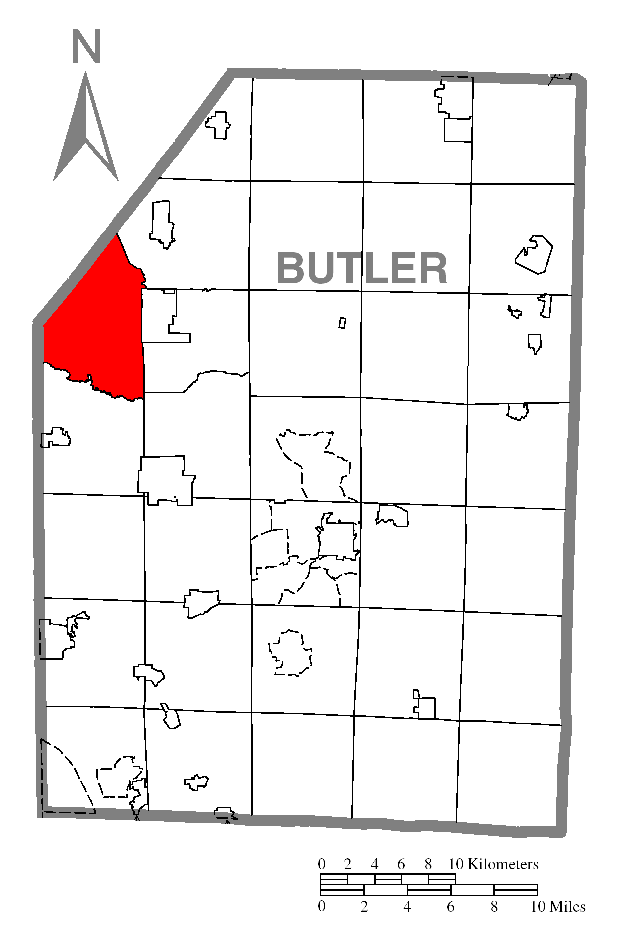 A map of Butler County showing Worth Township, Pennsylvania (alternate) highlighted on the map.